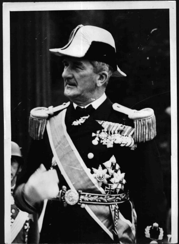 Admiral Miklós Horthy (1868-1957)